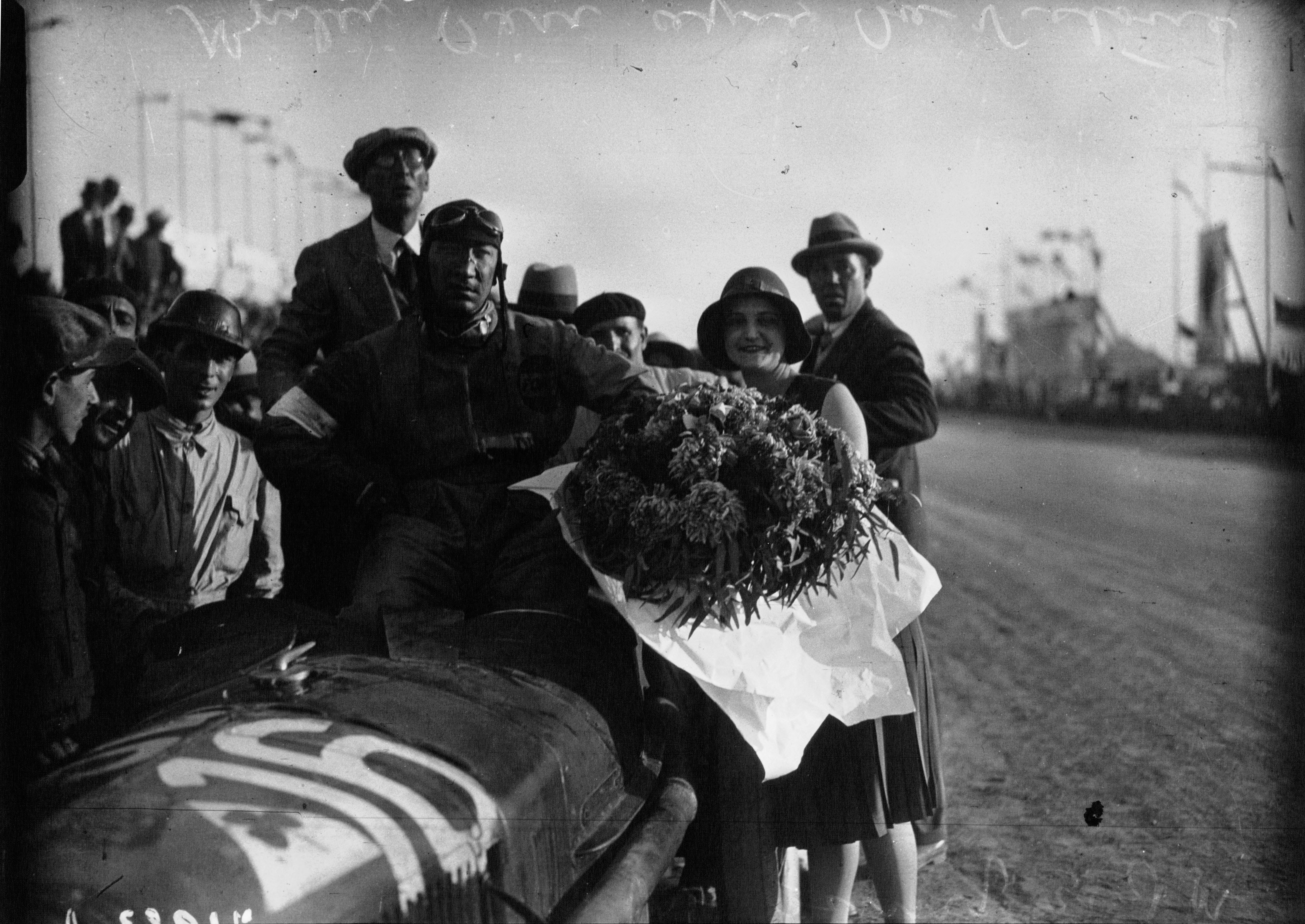 Gastone Brilli-Peri at the 1929 Tunis Grand Prix